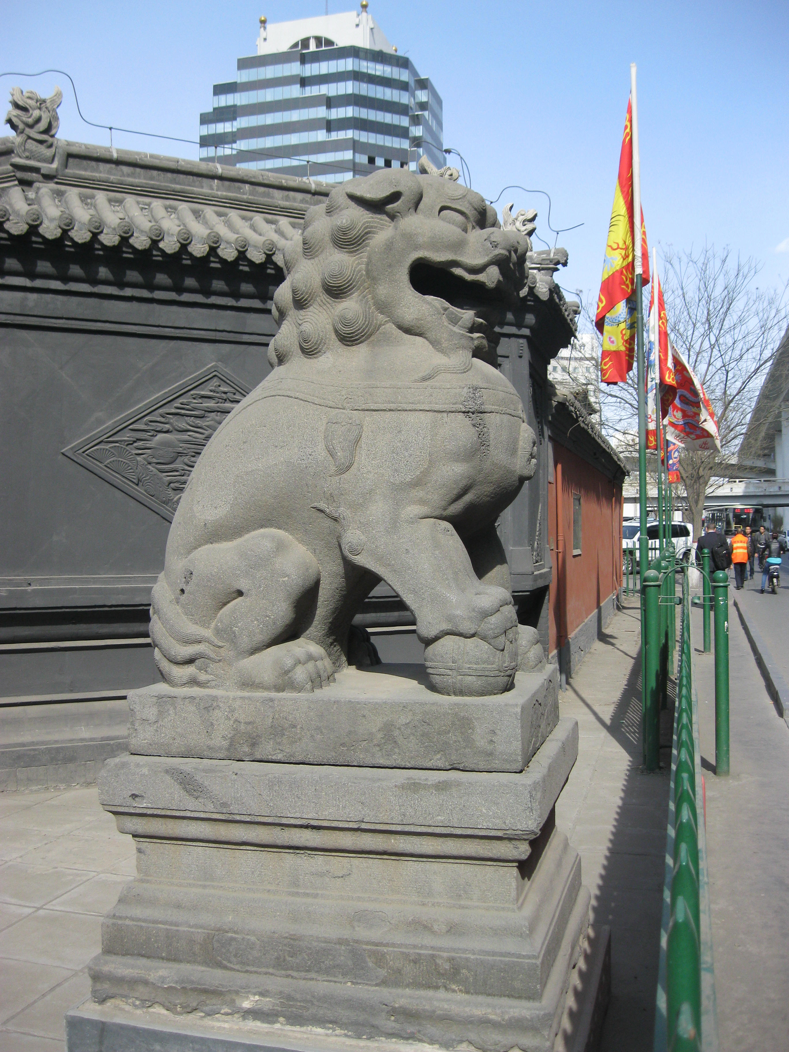 The stone lions right next the the main street